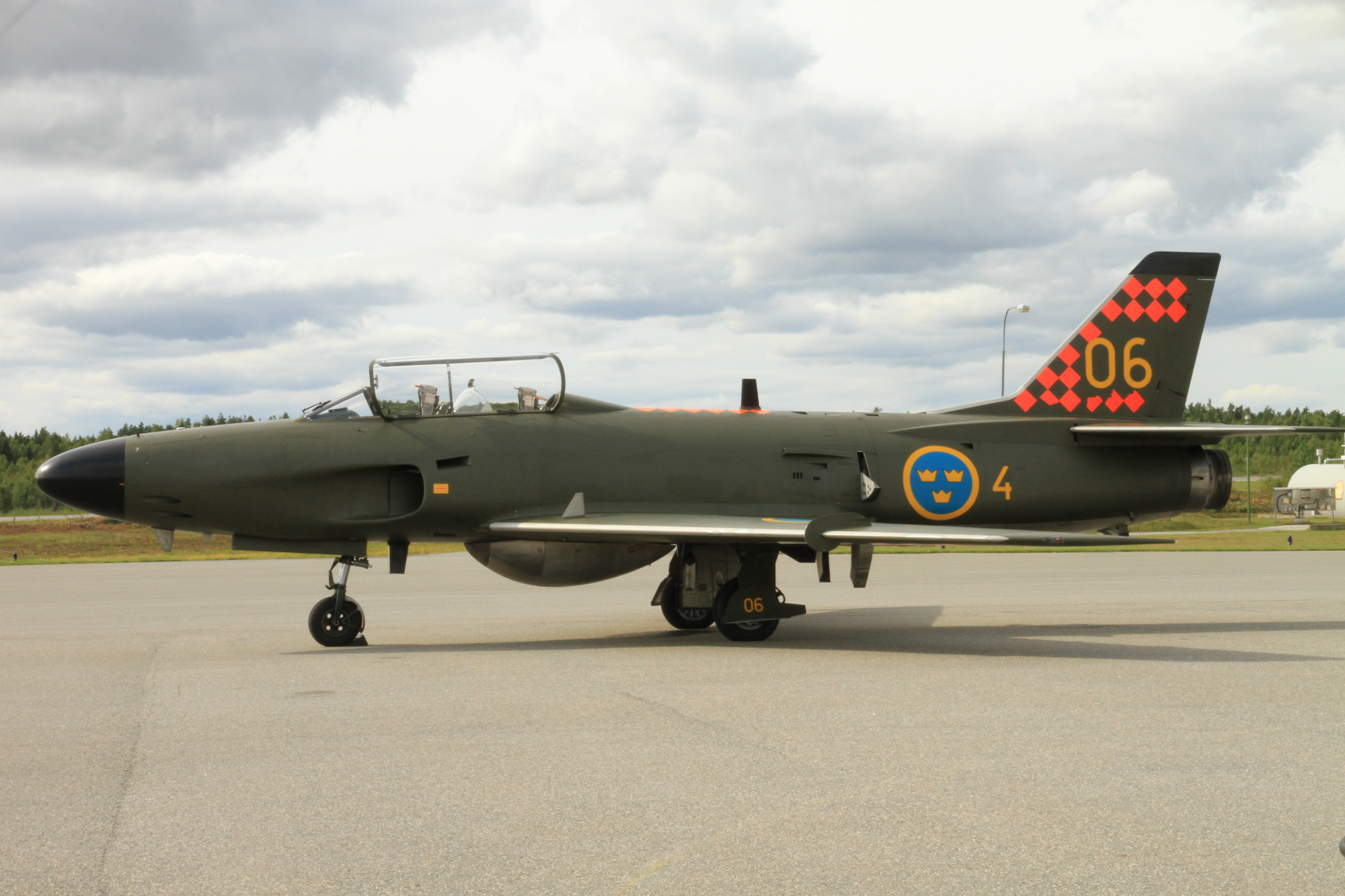 A J 32B Lansen at the airshow Flygfest 2011 at Örebro, Sweden.